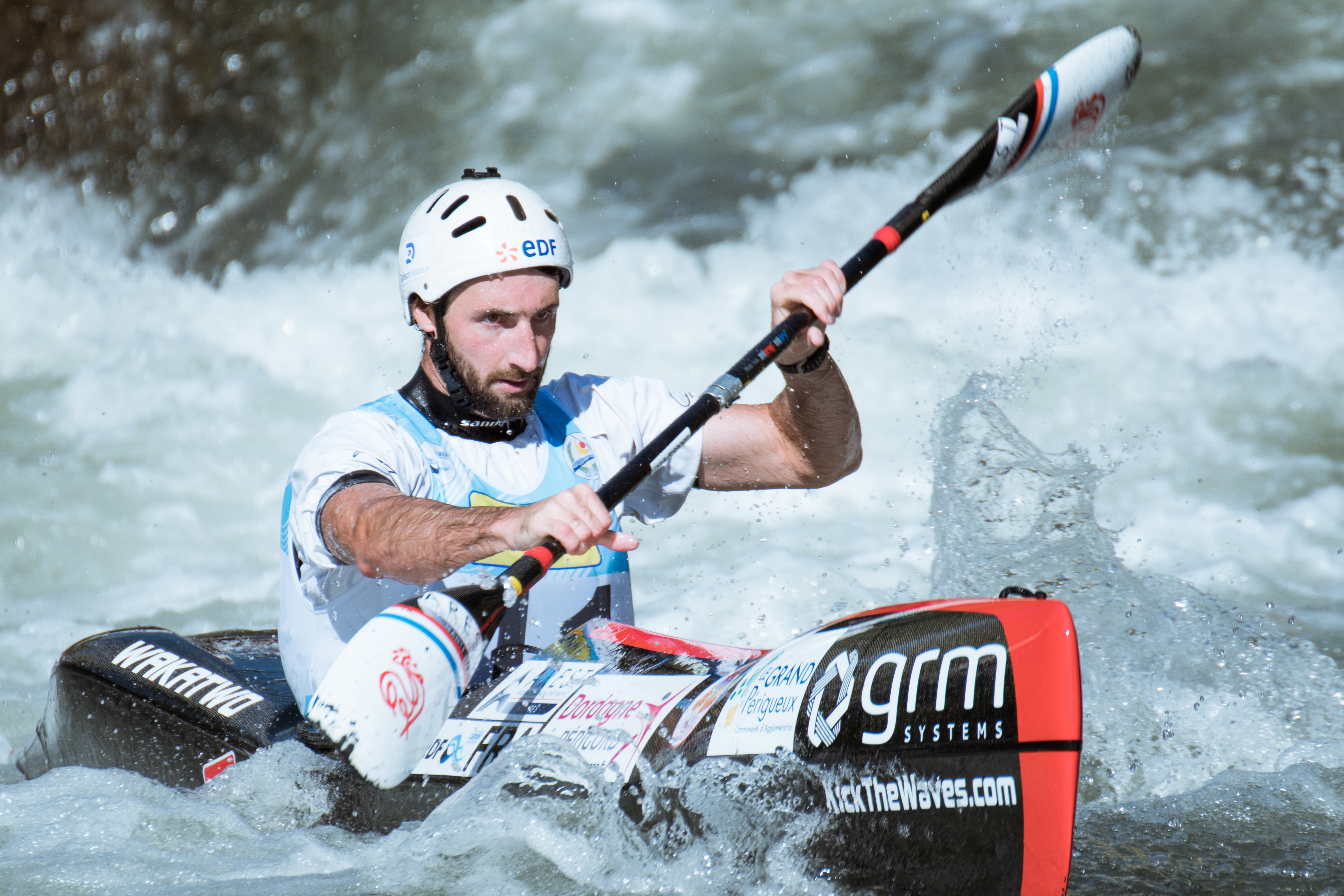 Félix Bouvet during the 2019 Canoe Wildwater World Championships in La Seu d'Urgell, Spain.